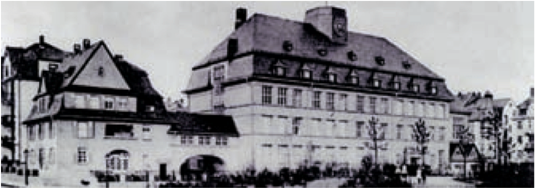 Picture on the occasion of the inauguration of Helmholtzschule in Frankfurt am Main, Hesse, Germany on 16 April 1912